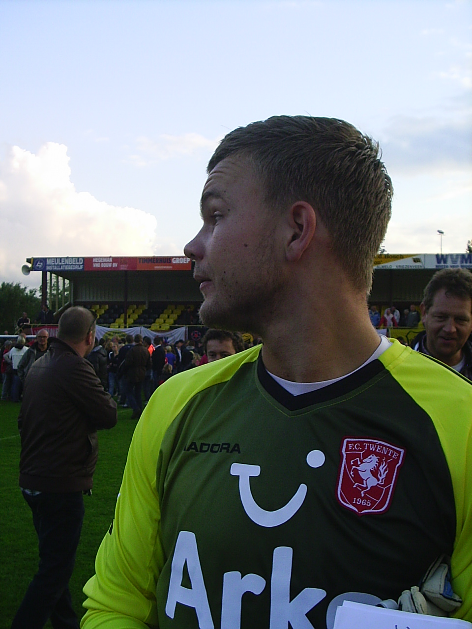 FC Twente player Nick Marsman